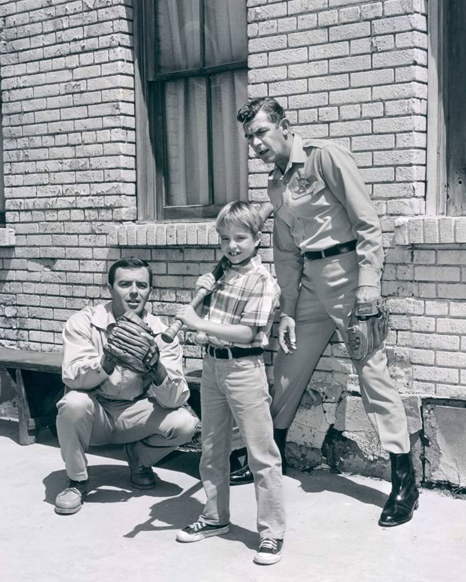 Publicity photo from the television program Mayberry R.F.D. Pictured are Ken Berry (Sam Jones), Buddy Foster (Mike Jones), and Andy Griffith (Sheriff Andy Taylor).